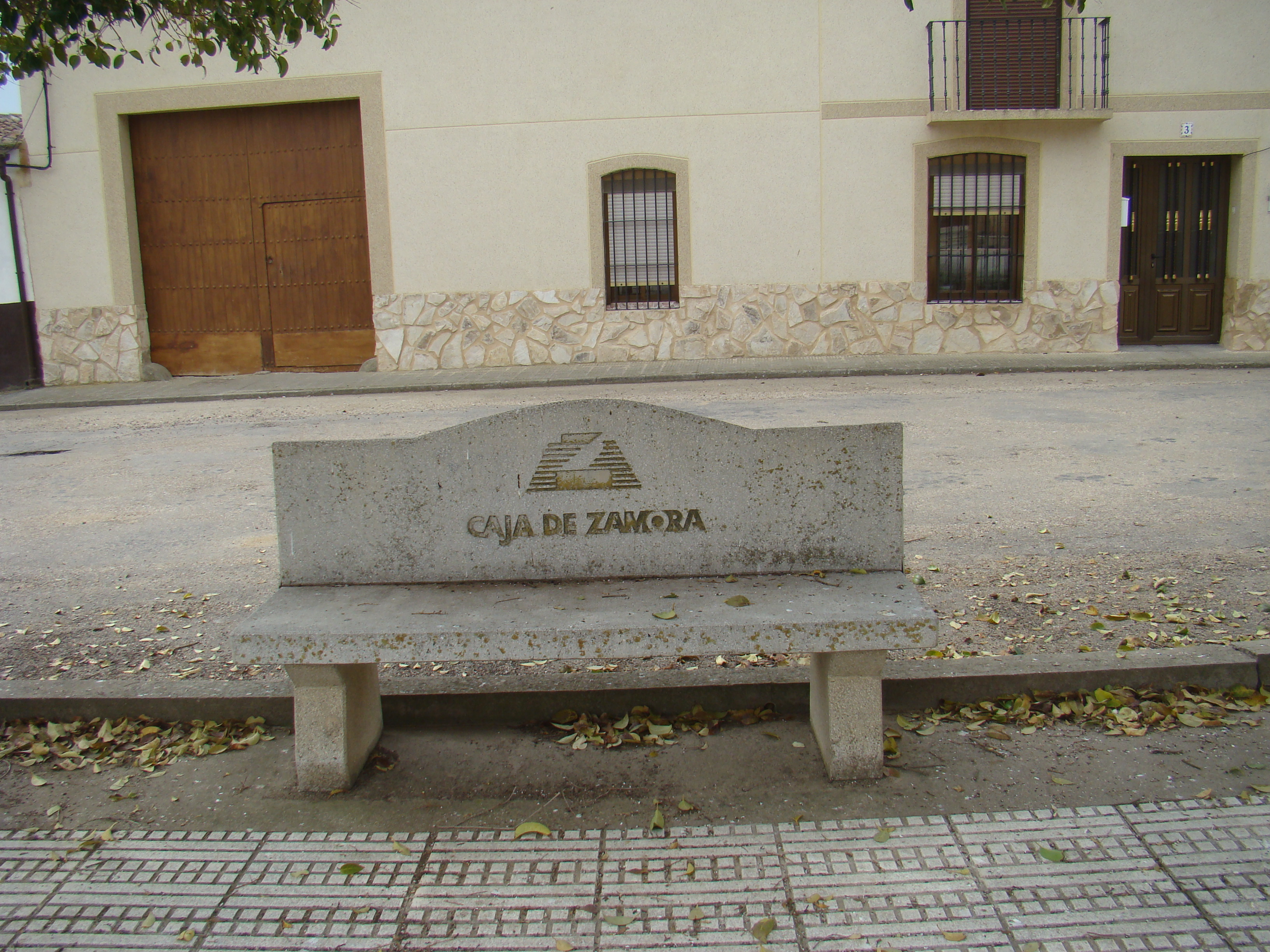 Villalonso, Zamora, Spain. Square of the Villa.